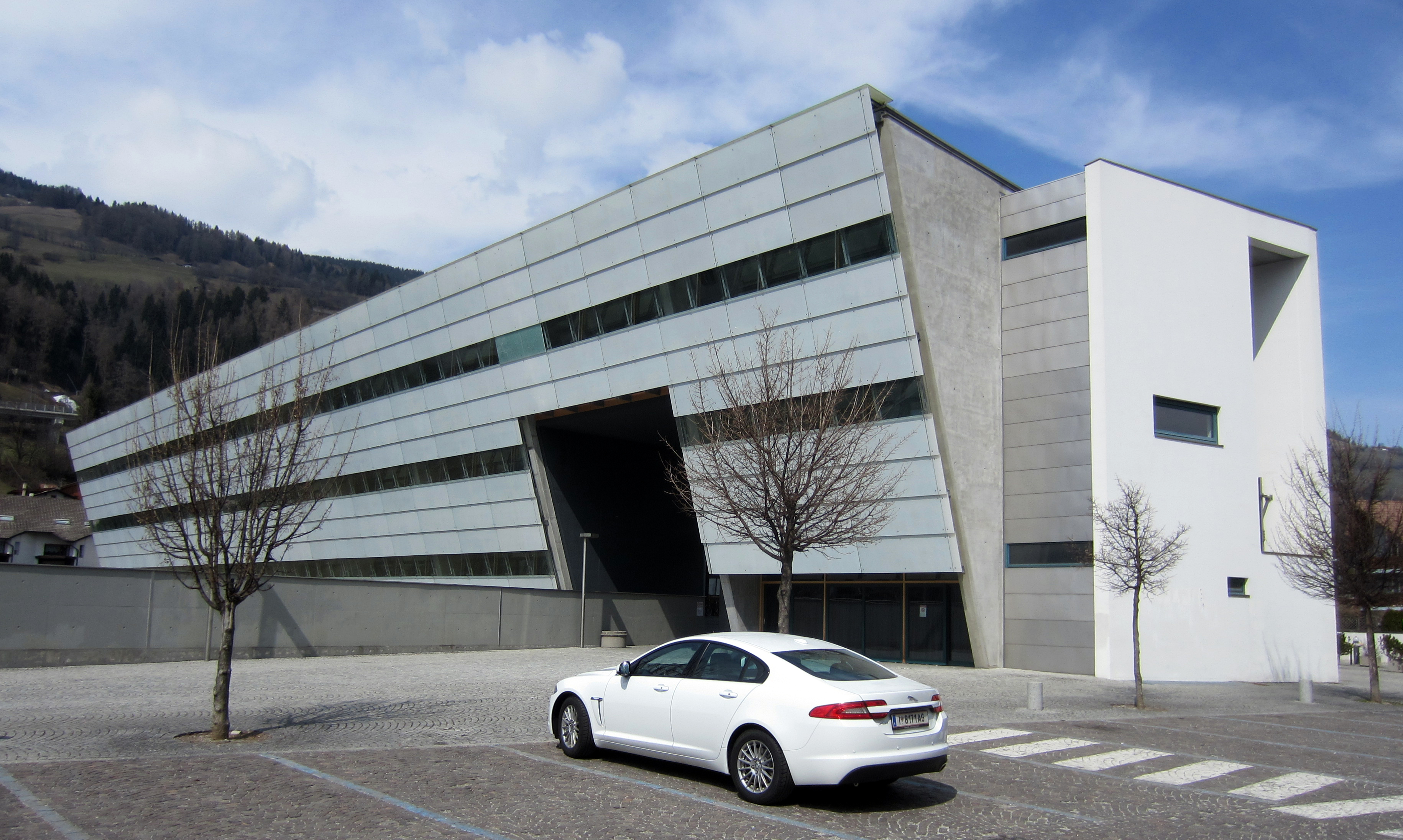 Modern High school building in Vipiteno (Sterzing), Italy